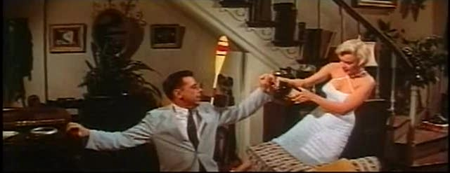 Marilyn Monroe and Tom Ewell open a bottle in the theatrical trailer of the 1955 film The Seven Year Itch directed by Billy Wilder.